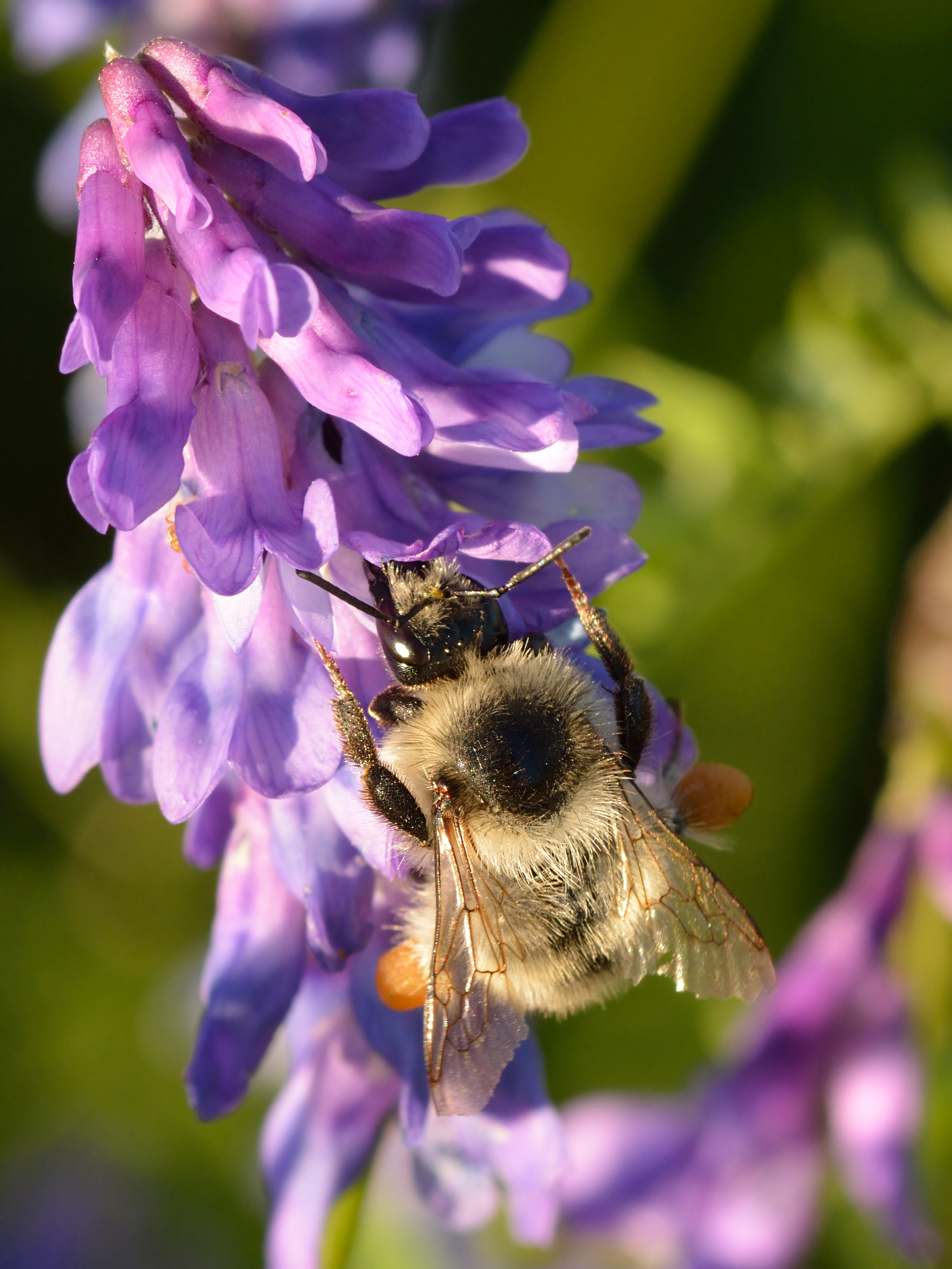 Shrill carder bee (Bombus sylvarum) on the tufted vetch (Vicia cracca). Keila, Northwestern Estonia.